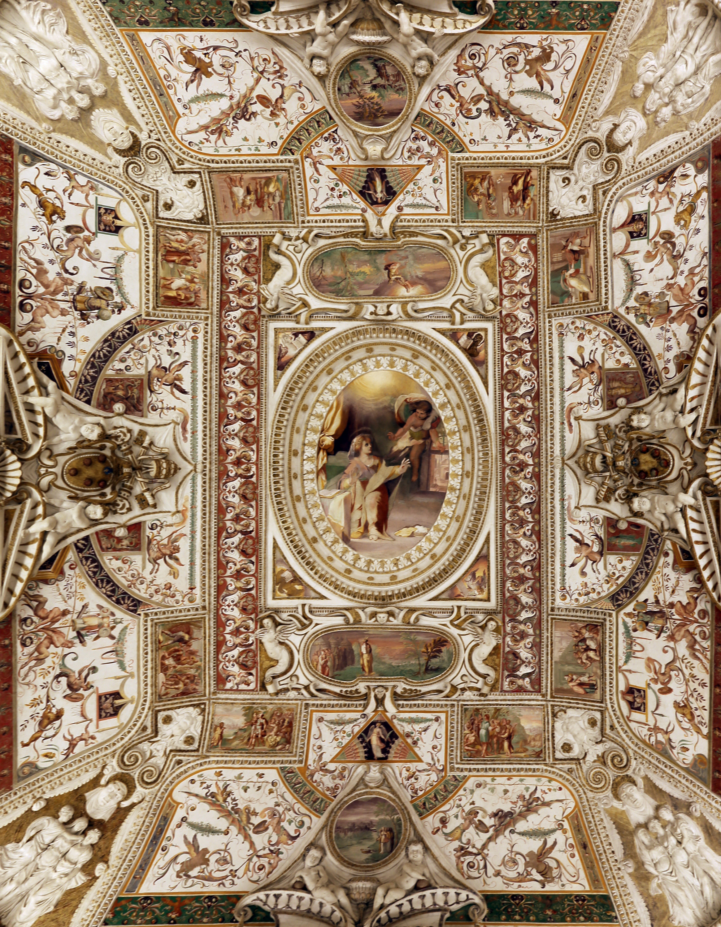 Casino di Pio IV - Frescos by Federico Barocci